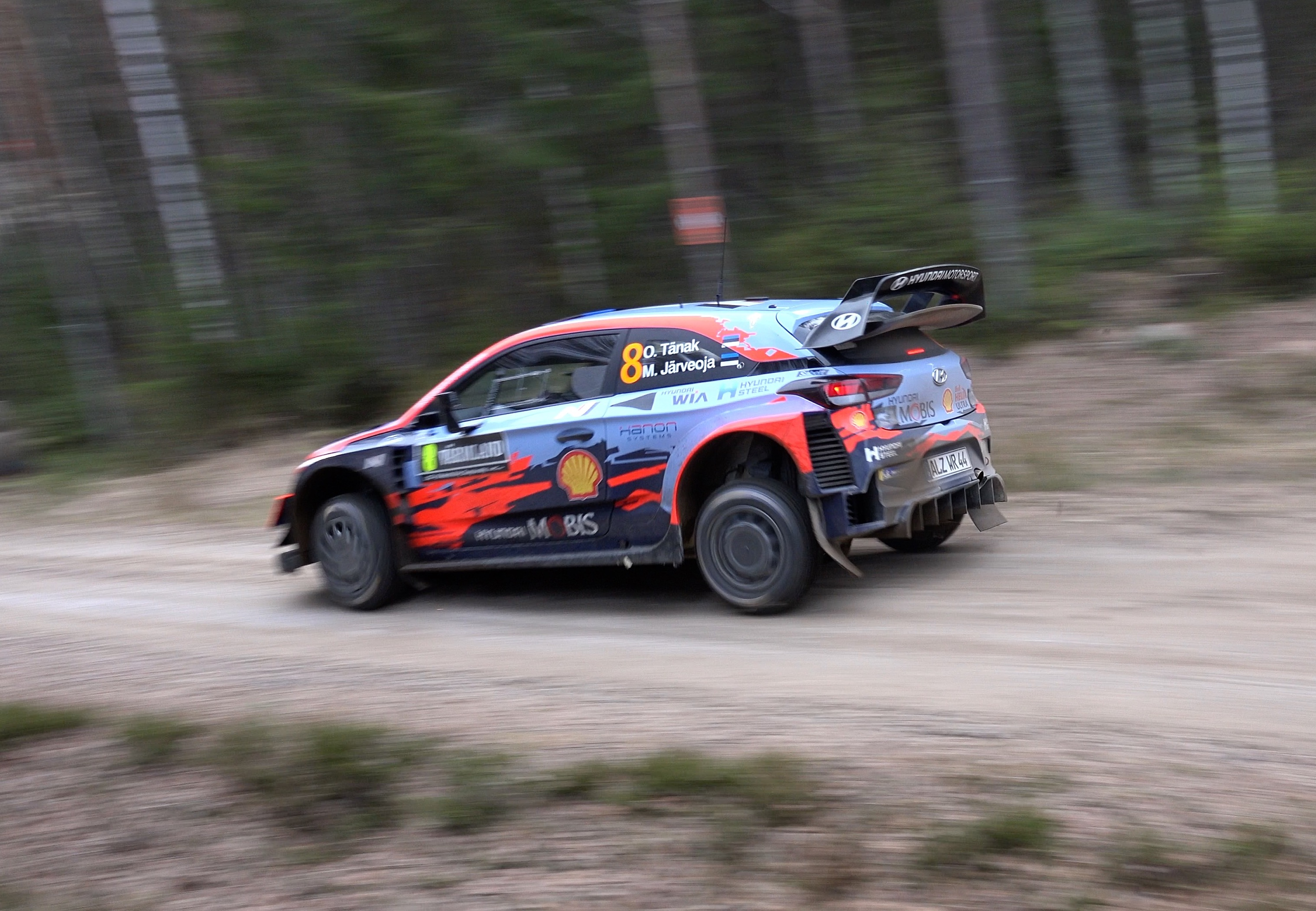 Tänak at Rally Sweden 2020.